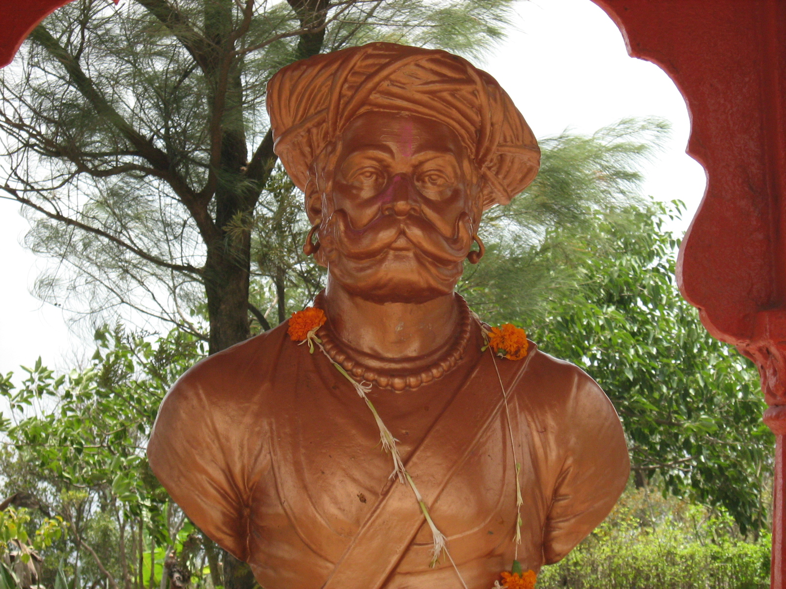 A memorial commemorating Subedar (Lieutenant) Sardar Tanaji Malusare at Sinhgad Fort near the city of Pune (India). Subedar NarVeer Tanaji Malusare was a Mahratta/Maratha Sardar, who led Maratha forces to a decisive victory in the 'Battle of Sinhgad' (1670 CE); fought with great ferocity against the Mughal forces despite being vastly outnumbered.